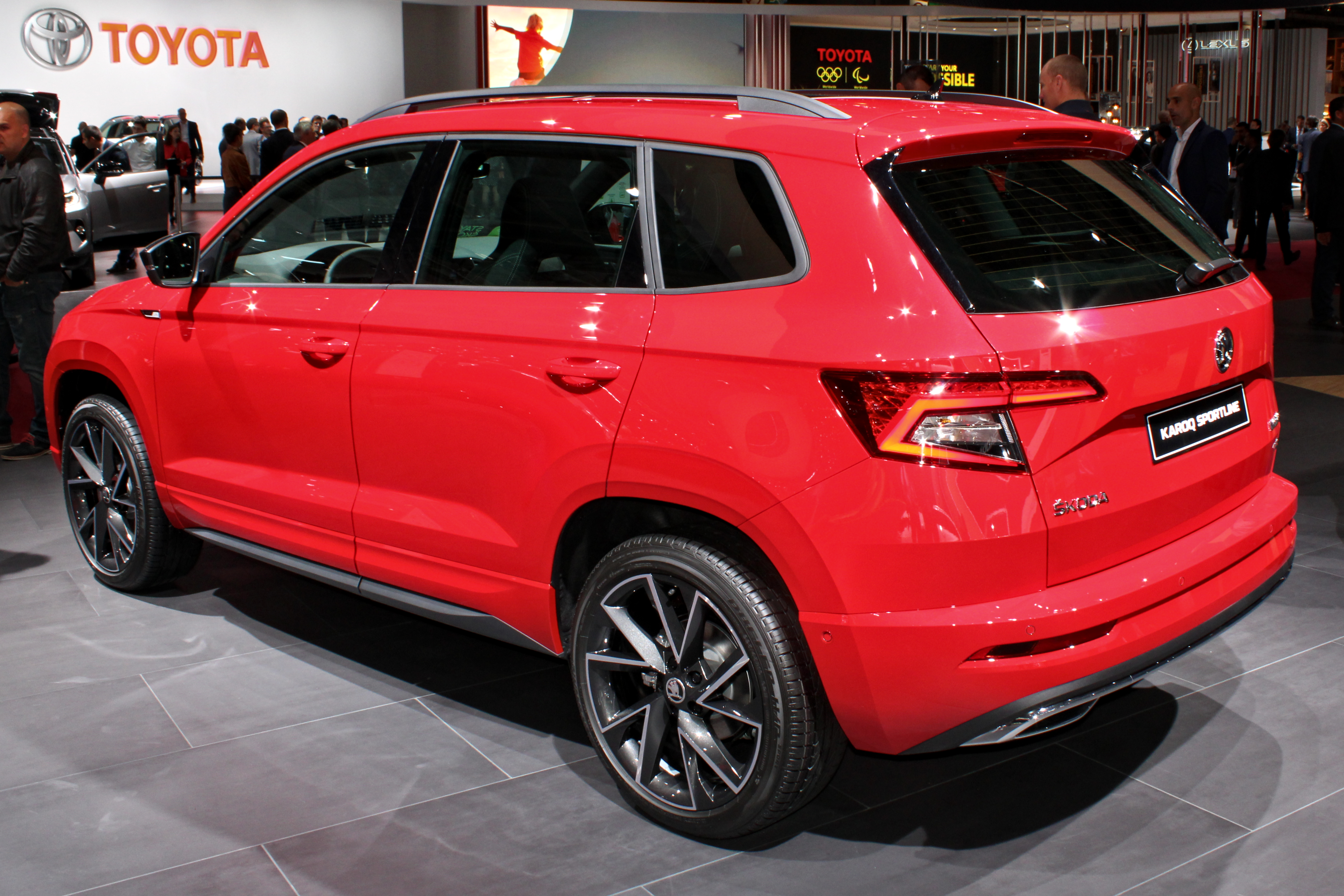 Skoda Karoq Sportsline at Paris Motor Show 2018